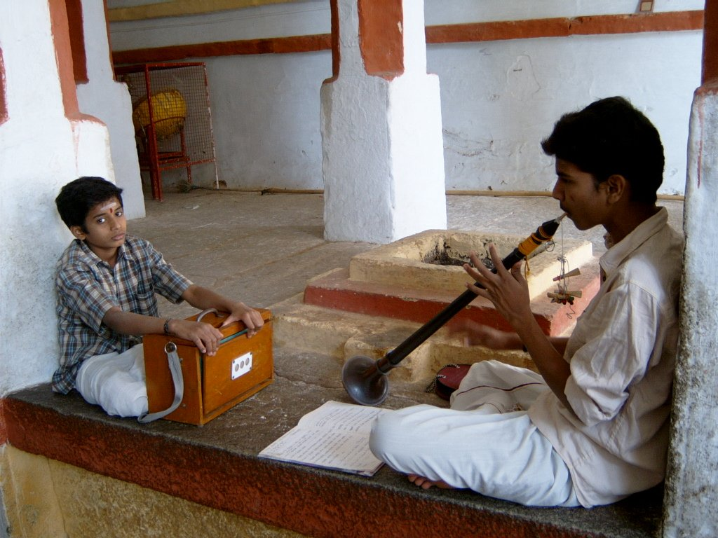 From Bull Temple in Bangalore. Original description: The box held by the younger boy emits a constant, monotone sound like a drone, while the long instrument is a reed instrument. You can see a bunch of extra reeds hanging from the mouthpiece.Musicians in Bull Temple